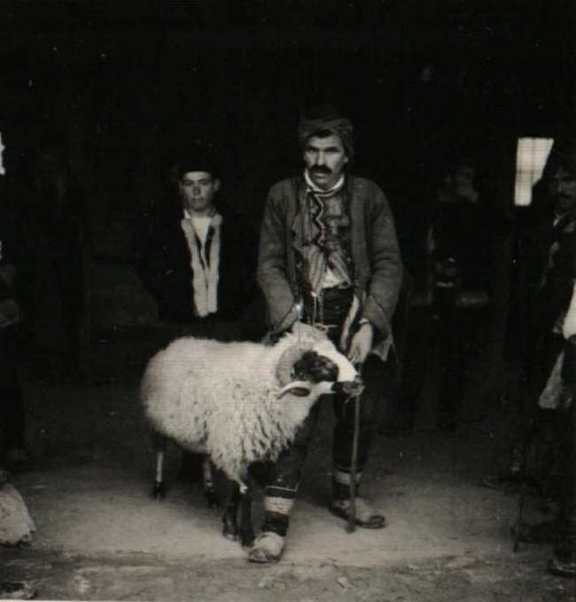 Macedonia